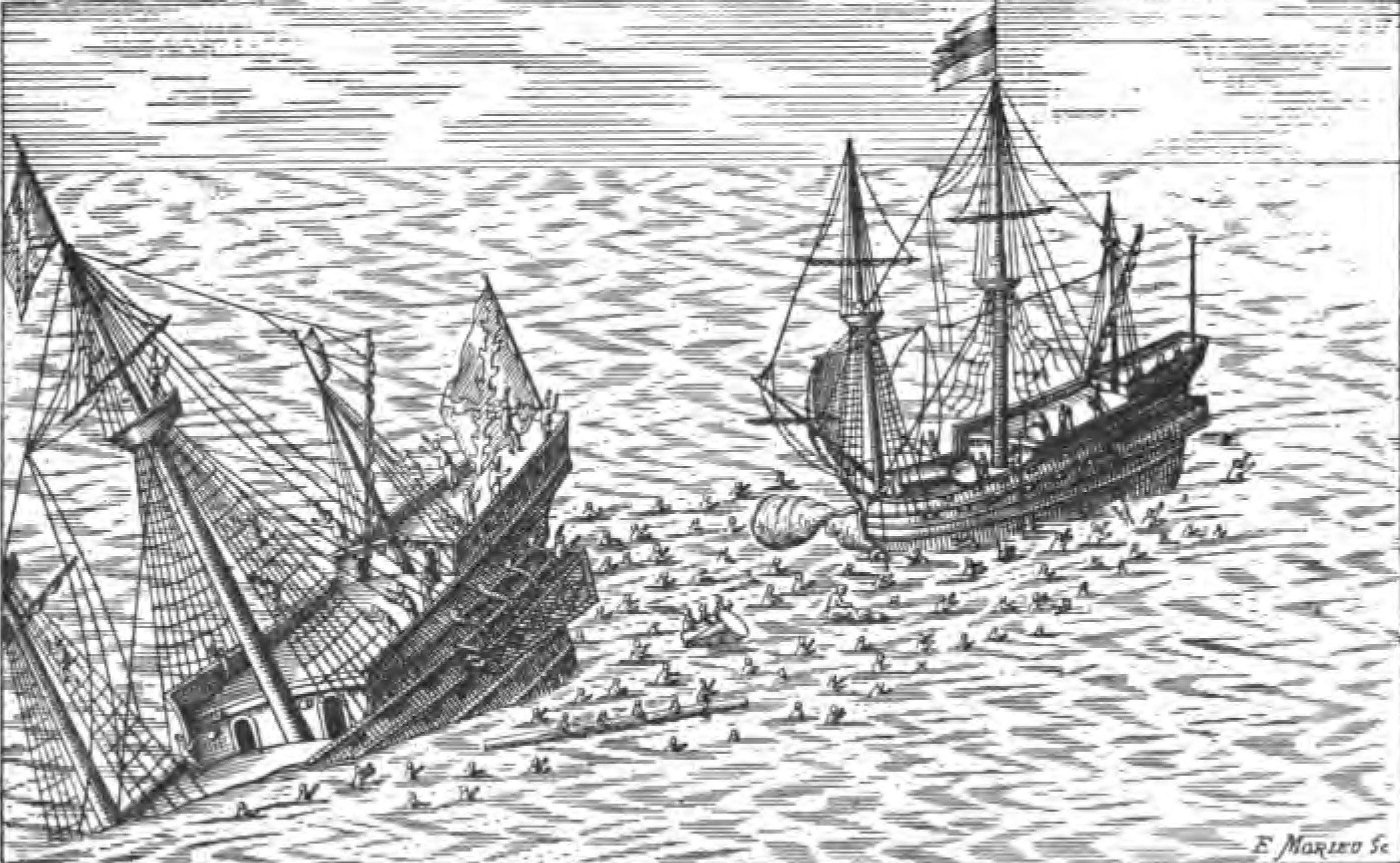 Engagement between a Spanish galleon and a Dutch ship, found in The Story of the Barbary Corsairs' by Stanley Lane-Poole, published in 1890 by G.P. Putnam's Sons.